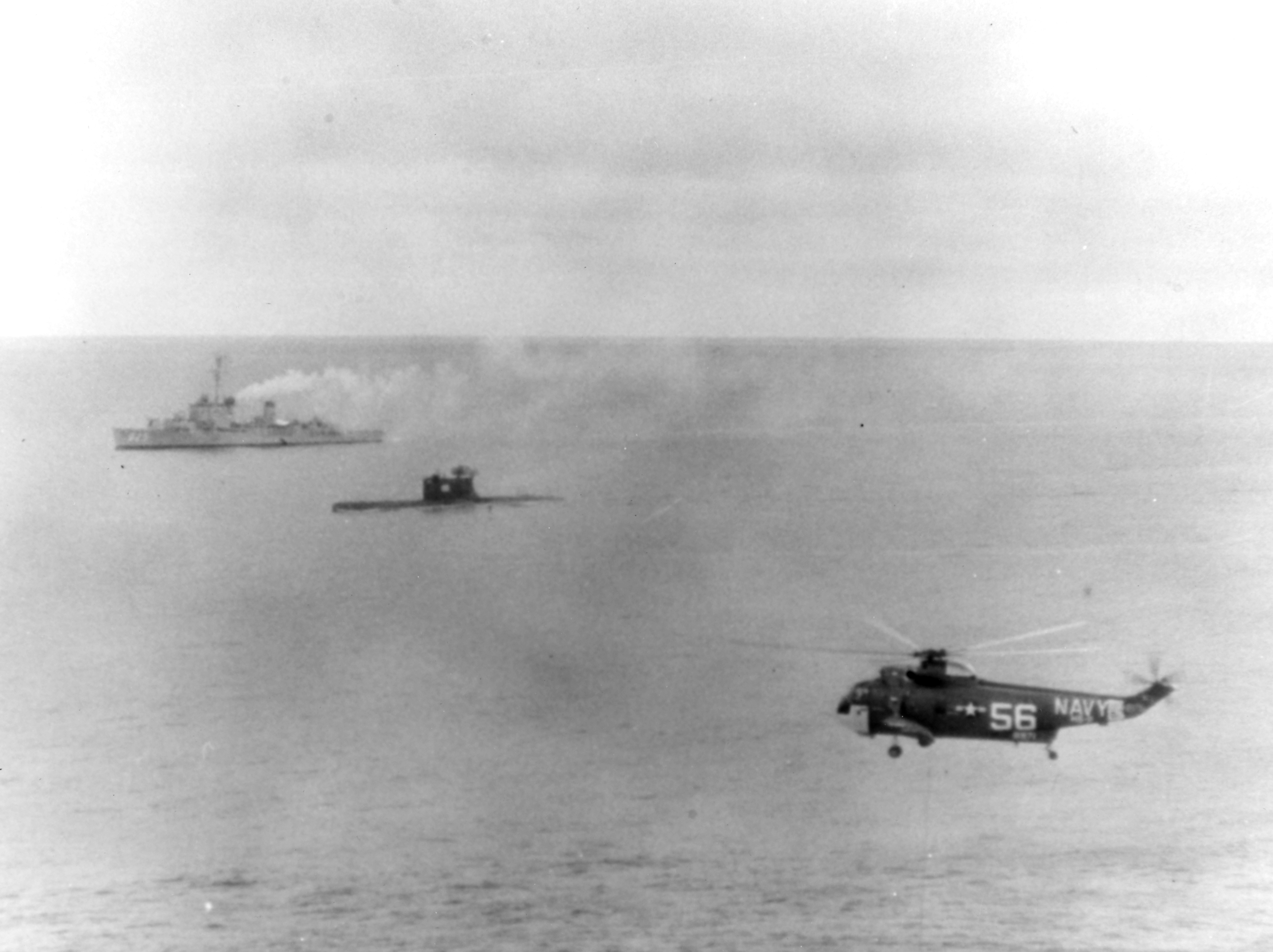 A Soviet Whiskey-class submarine is escorted by the U.S. Navy destroyer USS Carpenter (DD-825) and a Sikorsky SH-3A Sea King from Helicopter Anti-Submarine Squadron 2 (HS-2) Golden Falcons after it was discovered near the USS Hornet (CVS-12) task group during exercises in the Sea of Japan on 6 January 1964. A Soviet trawler and a destroyer were also sighted by the task group during the exercises. HS-2 was assigned to Carrier Anti-Submarine Air Group 57 (CVSG-57) aboard the Hornet for a deplyment to the Western Pacific from 10 October 1963 to 15 April 1964. Note that the Sea King helicopter has deployed its sonar.